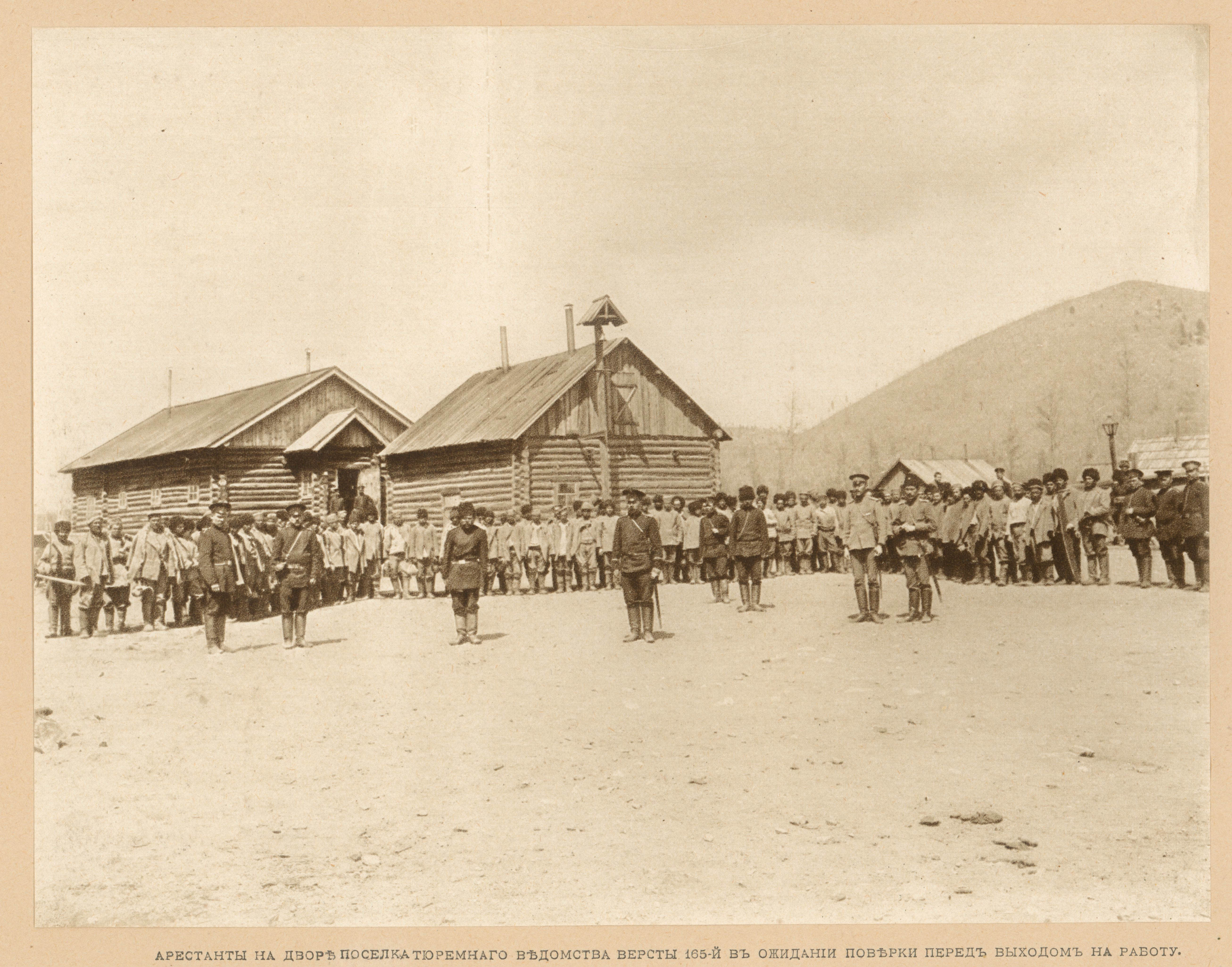 Russian prisoners awaiting inspection before going to work at the western building section (at the 165th verst) of the Amur Railway, early 20th century